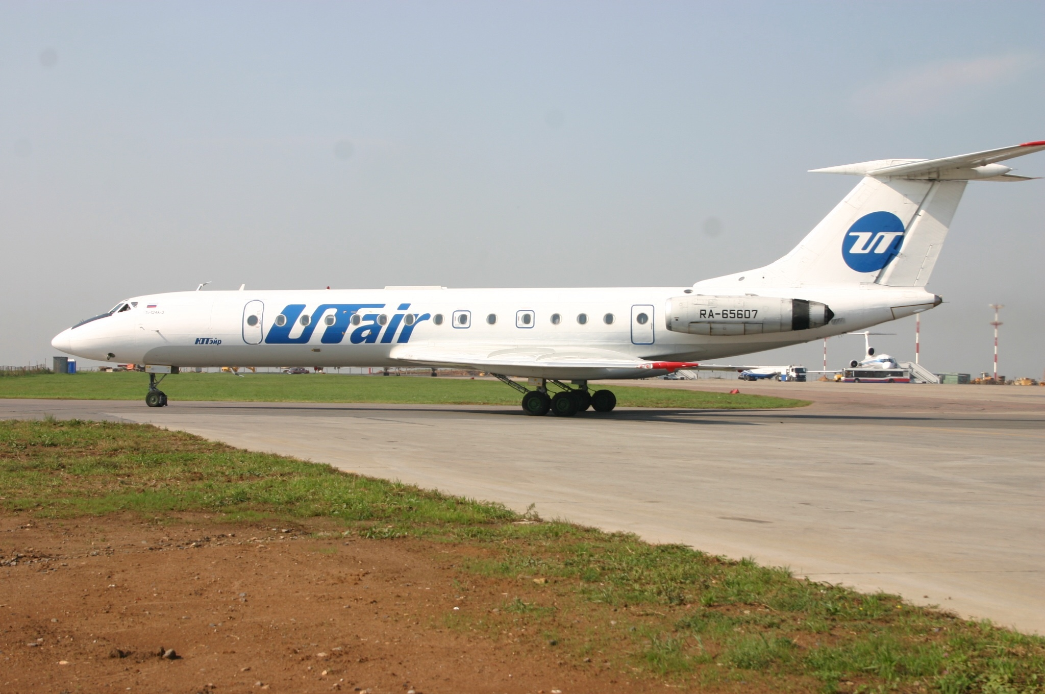 At Moscow Vnukovo